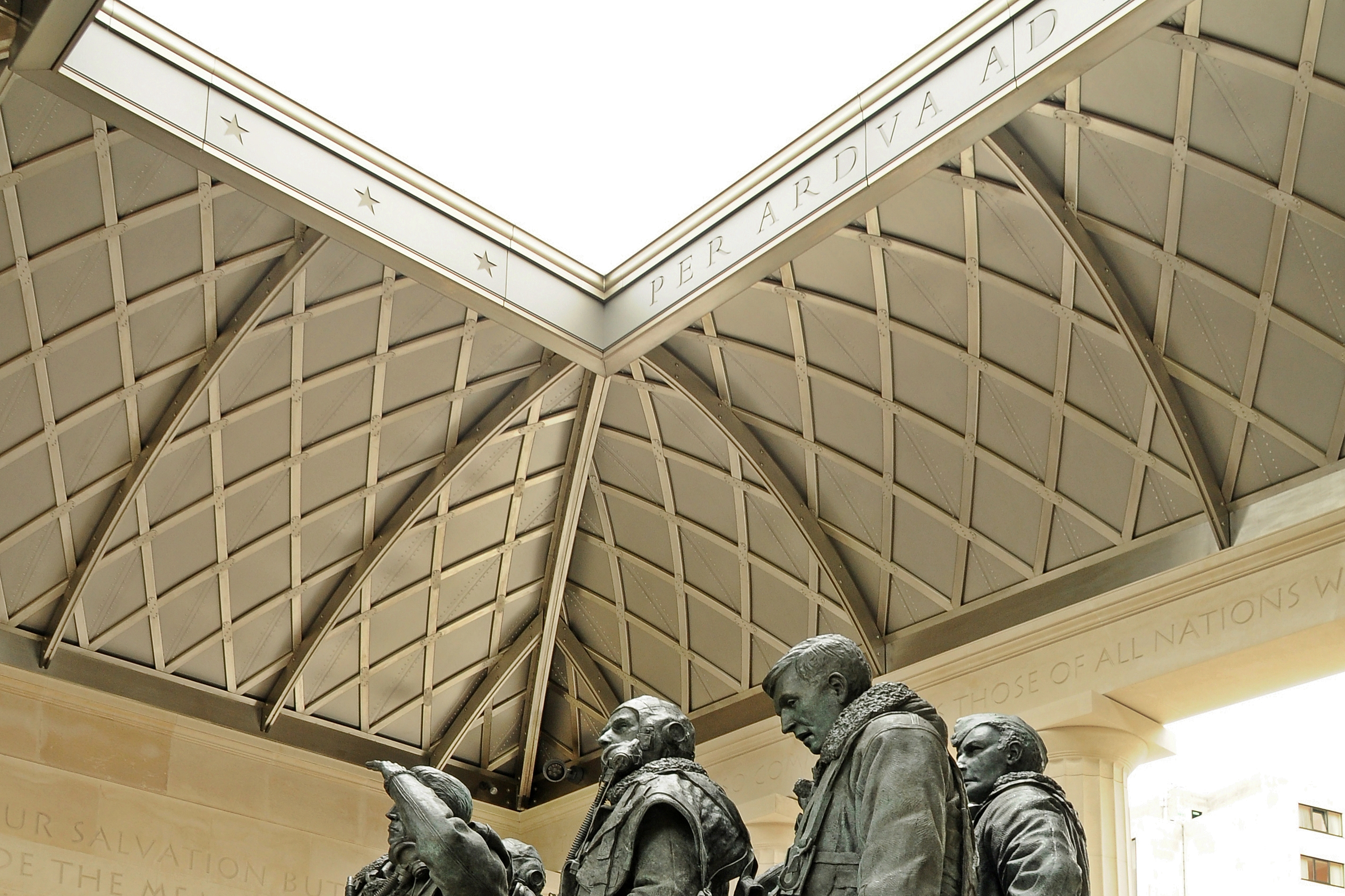 RAF Bomber Command Memorial, Green Park